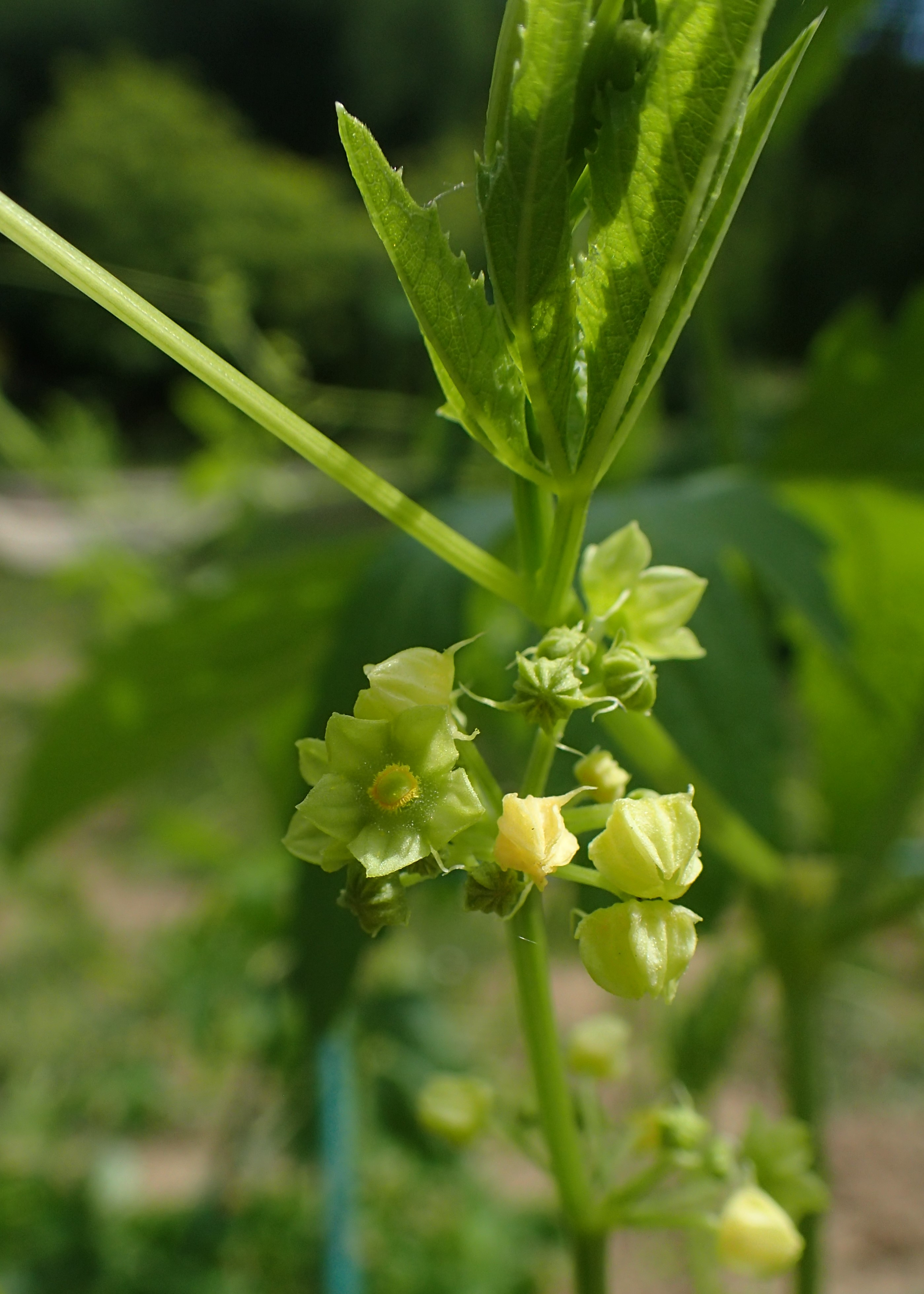 Cyclanthera pedata in the UMCS Botanical Garden in Lublin